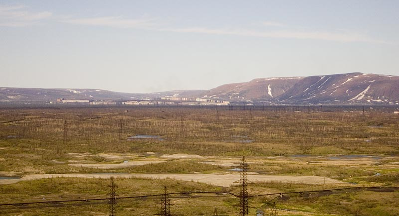 Forest-tundra landscape example (Norilsk, Russia environment).